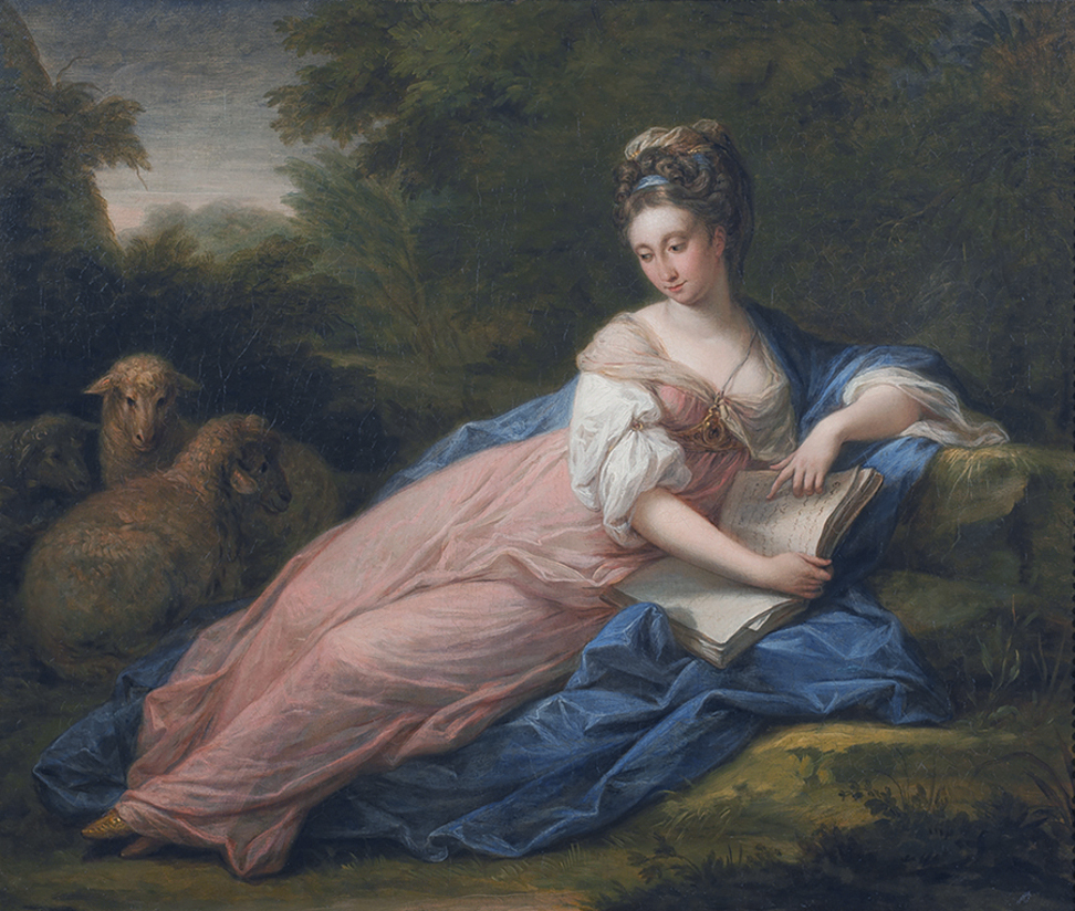 Mary Tisdal Reading oil on canvas 24-3/4 x 29-3/4 inches ca. 1771–1772